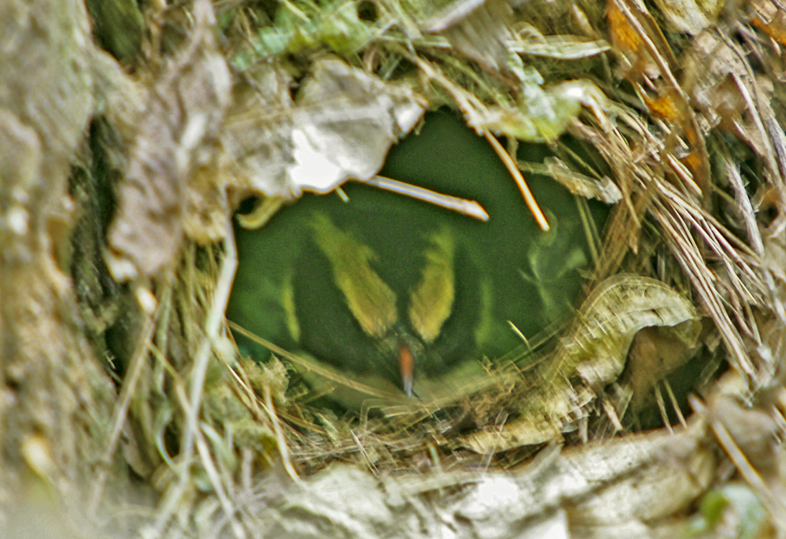 Green-breasted Pitta at nest - Kibale Uganda 06_4667